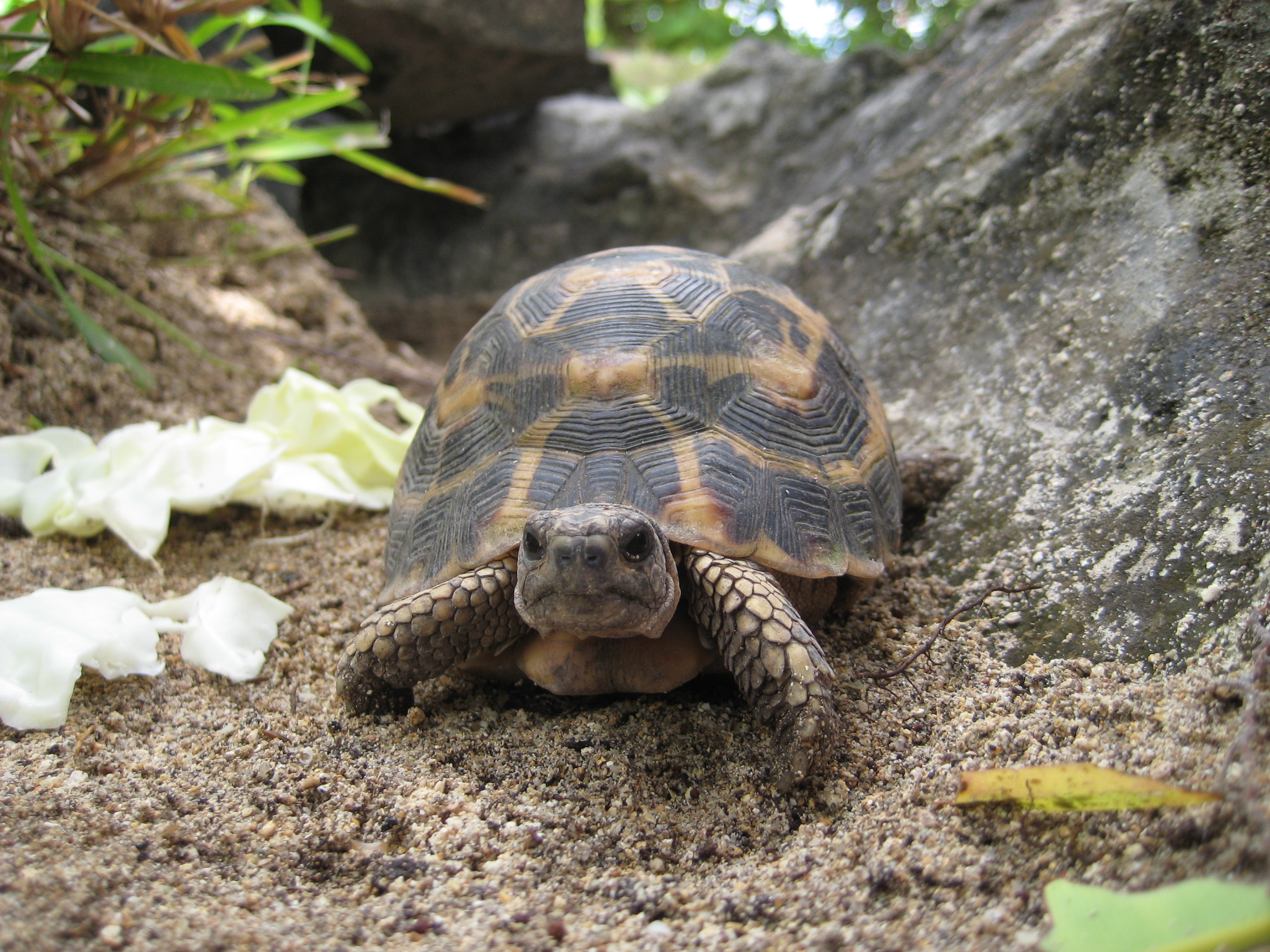 Pyxis planicauda (Flat-backed Spider Tortoise) taken at Parc Endemika on Île Sainte-Marie